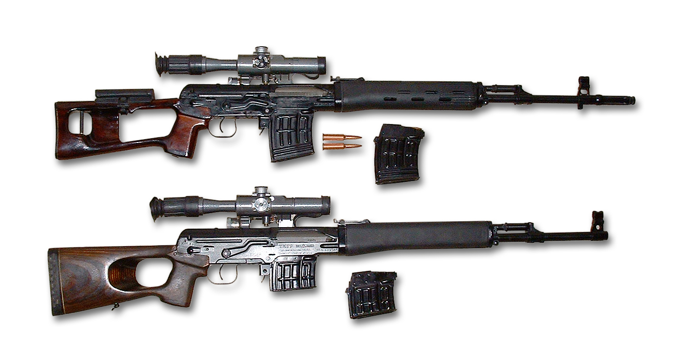 Pair of Dragunovs imported to US as Tigers; Top rifle has cheek pad, two 10-round magazines, and flash suppressor. Bottom gun was marketed as a "hunting carbine." It has no cheek pad, two 5-round magazines, and no flash suppressor. Both have wooden stocks and polymer foregrips.